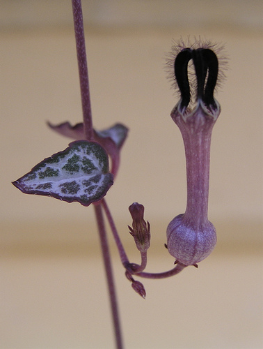 Ceropegia linearis subsp. woodii